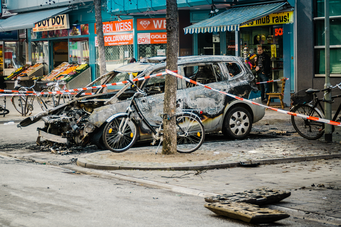 Burnt out Police car in Frankfurt during the European Central Bank protests. – Images *must* be attributed to J Mikka Luster jml.is